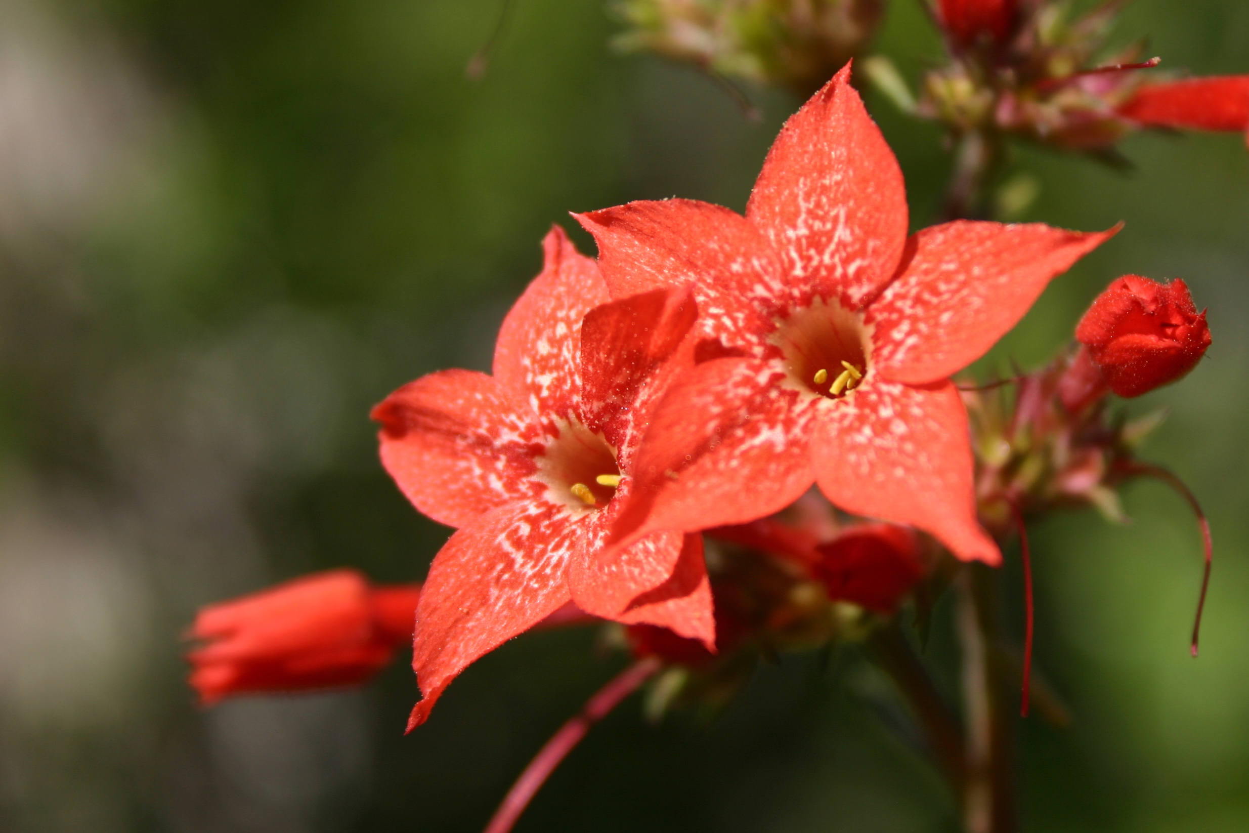 Flowers Along West Rim Trail of Zion National Park